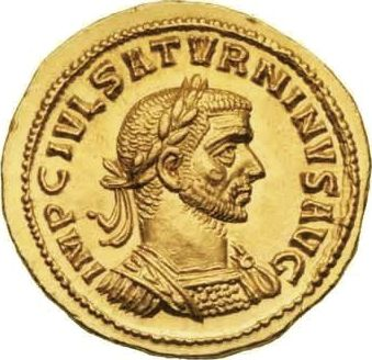 Saturninus, usurper, AD 281, Aureus, Antioch (?) mint. Obv.: IMP C IVL SATVRNINVS AVG, laureate, cuirassed bust right.